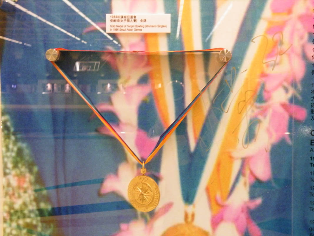 The 2009 East Asian Games Gallery. Gold Medal of Bowling (Women's Singles) in 1988 Seoul Asian Games